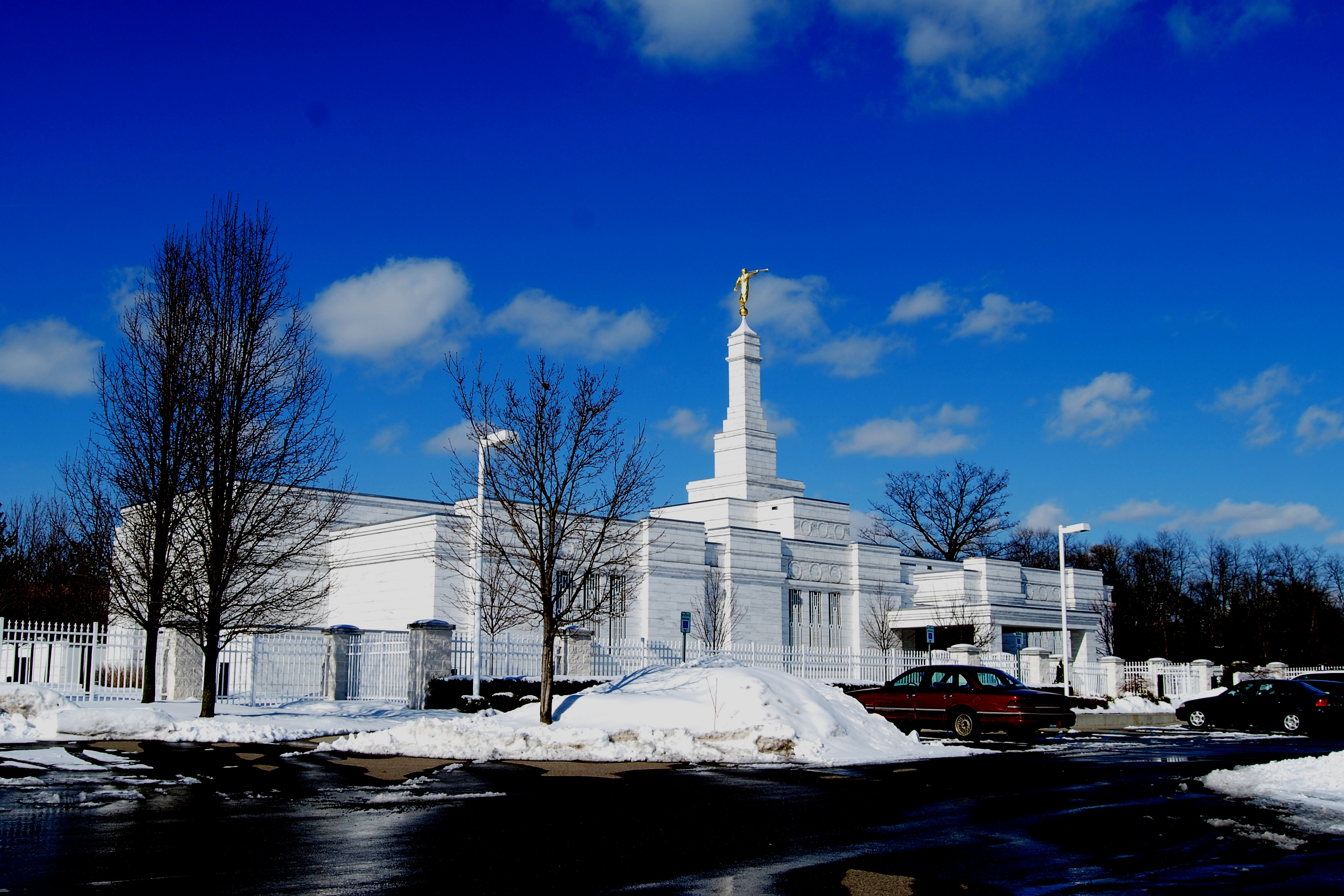 Detroit Michigan Temple of The Church of Jesus Christ of Latter-day Saints in Bloomfield Hills, Michigan